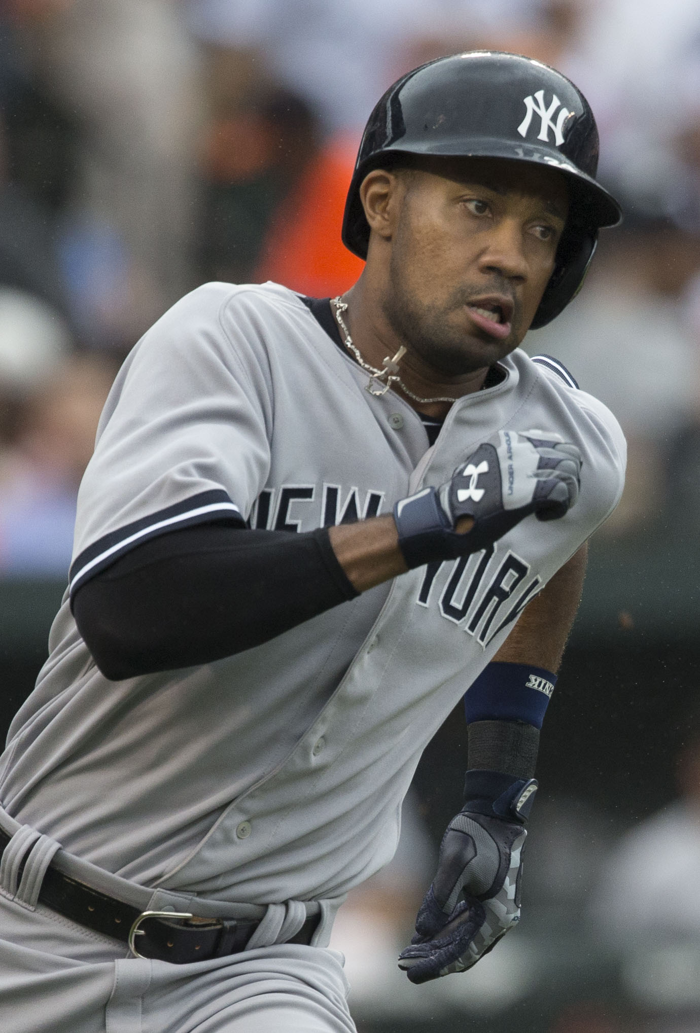 Chris Young